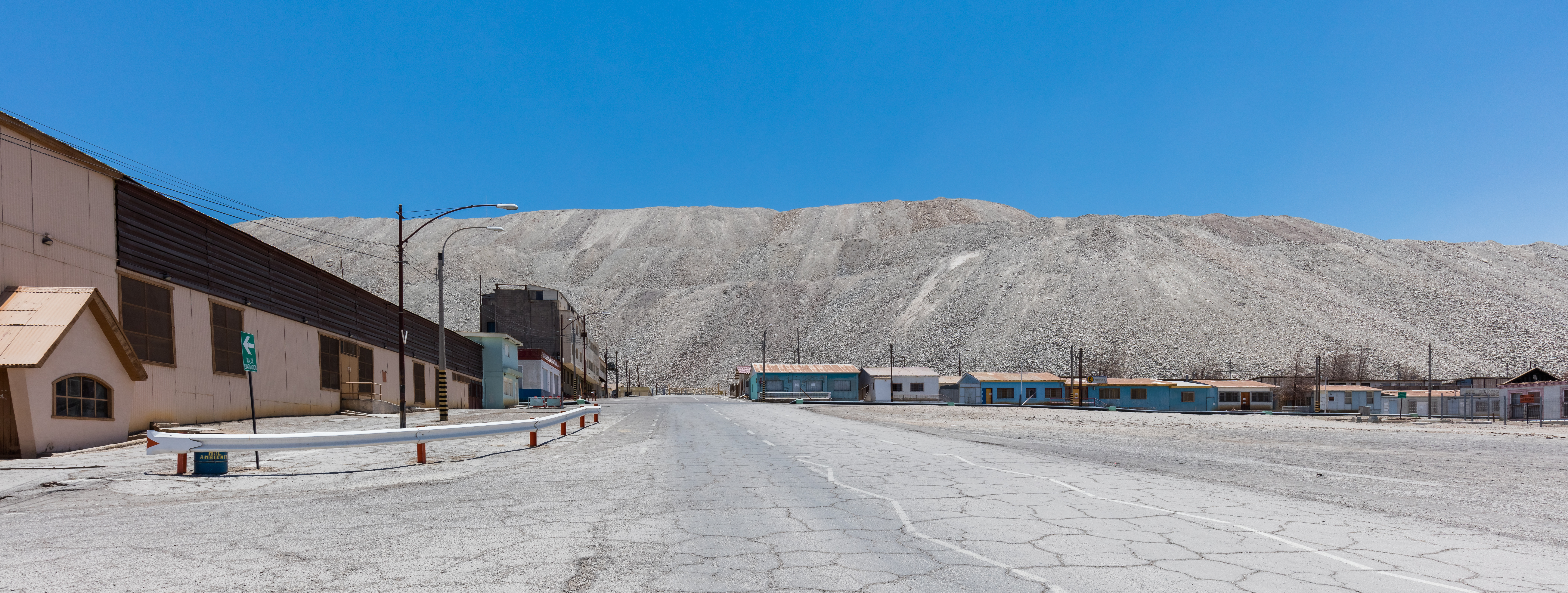 Chuquicamata town, Calama, Chile